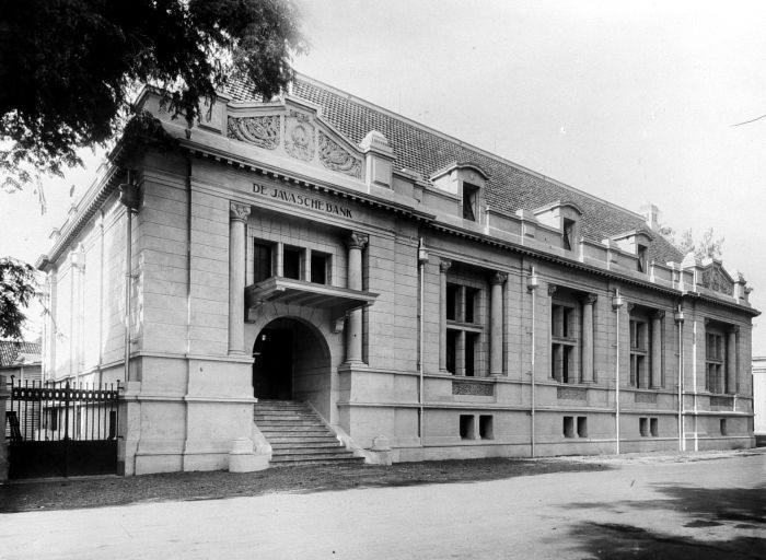 Office of the Java Bank